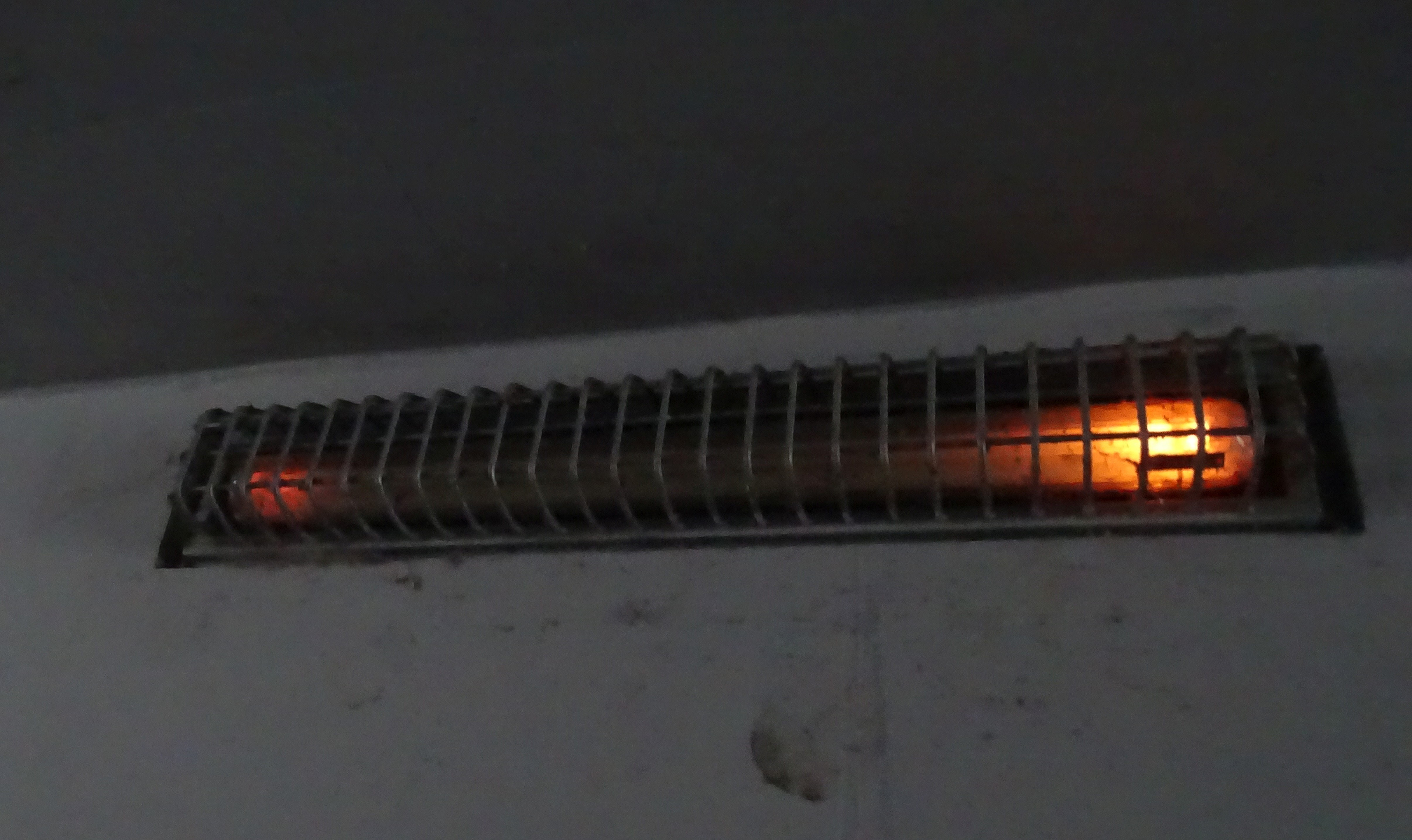 Prague-Břevnov, Czechia. Bělohorská street, an underpass near the Kaufland store and Obora Hvězda stop.